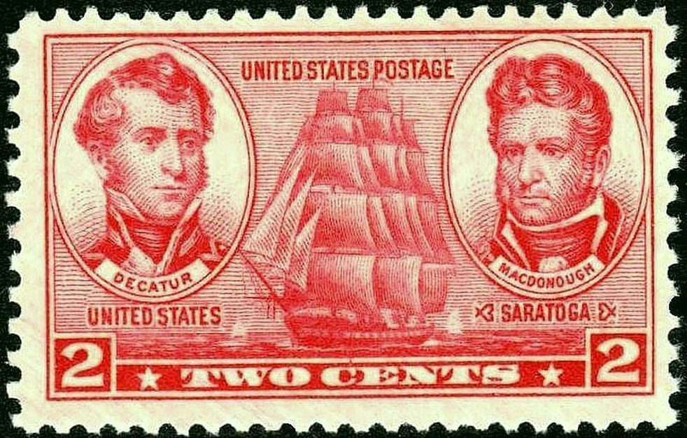 U.S. Postage Stamp, Navy Issue of 1937, 2c, redCommemorating Stephen Decatur and Thomas MacDonough President Theodore Roosevelt originally urged Congress for a series of U.S. Postage stamps commemoratingthe Army, Navy and various war heros of the American Revolution, the War of 1812 and theAmerican Civil War. His dream was never realized until 1937 when President Franklin D. Roosevelt,who was a serious stamp collector himself, urged congress and the U.S. Post Office to issue thelong overdue Army and Navy Issue of 1937; Ten stamps consisting of two sets of five, one each for the Army and Navy, with denominations of 1c, 2c, 3c, 4c and 5c.